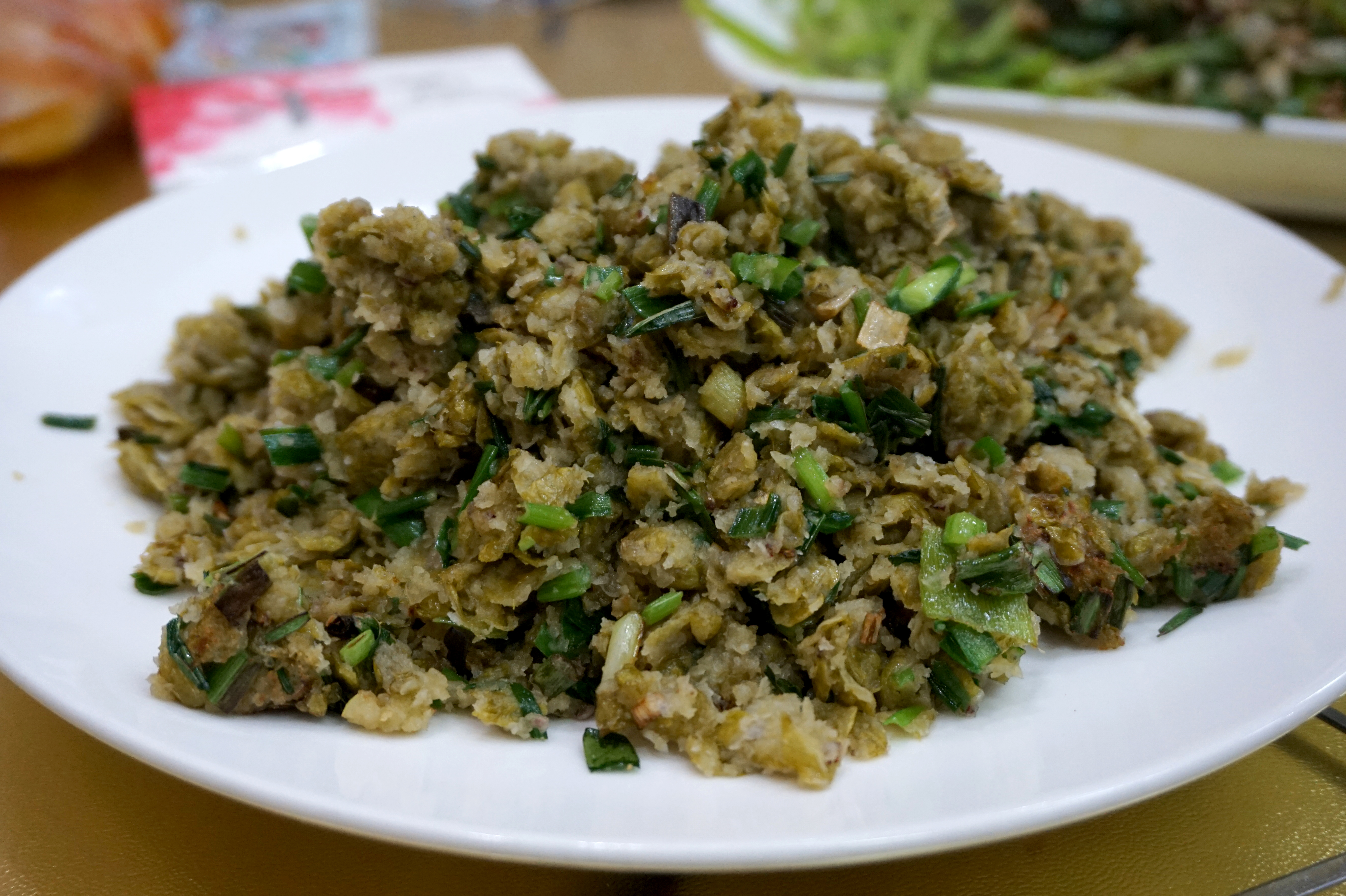 Fried elm fruits.